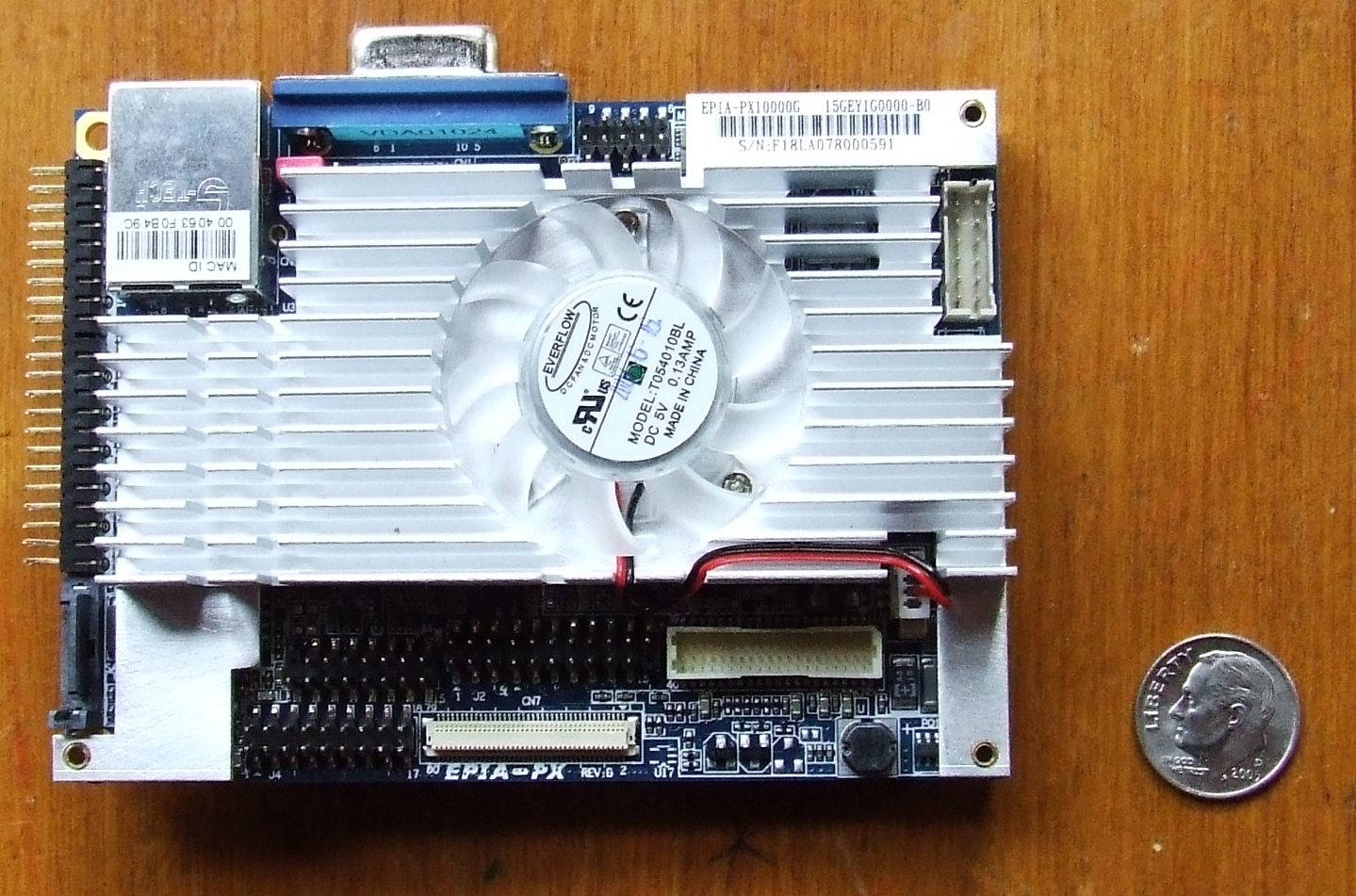 Top view of EPIA PX10000G Motherboard with dime for size comparison.